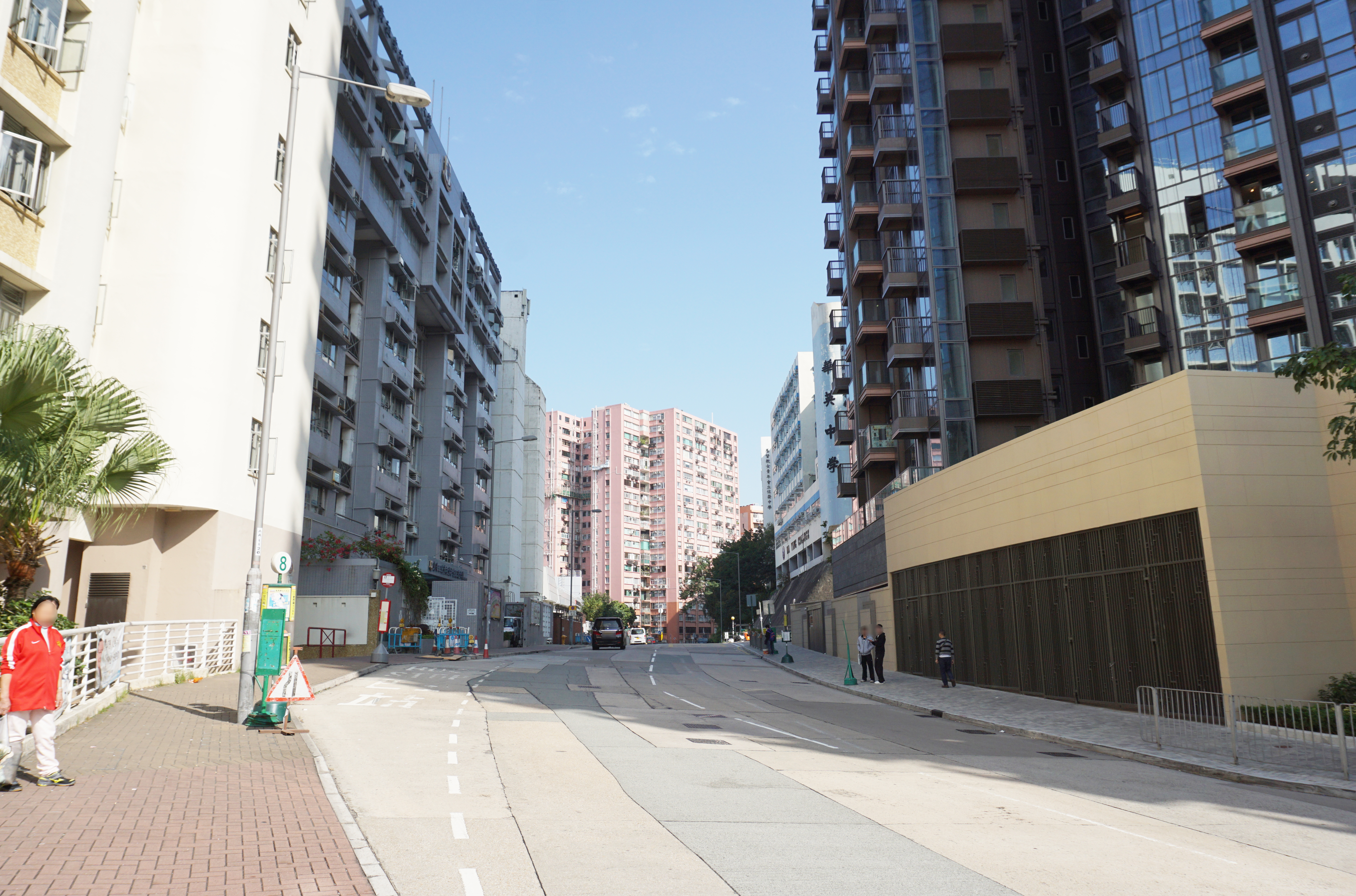 Sheung Shing Street in Ho Man Tin, Hong Kong.